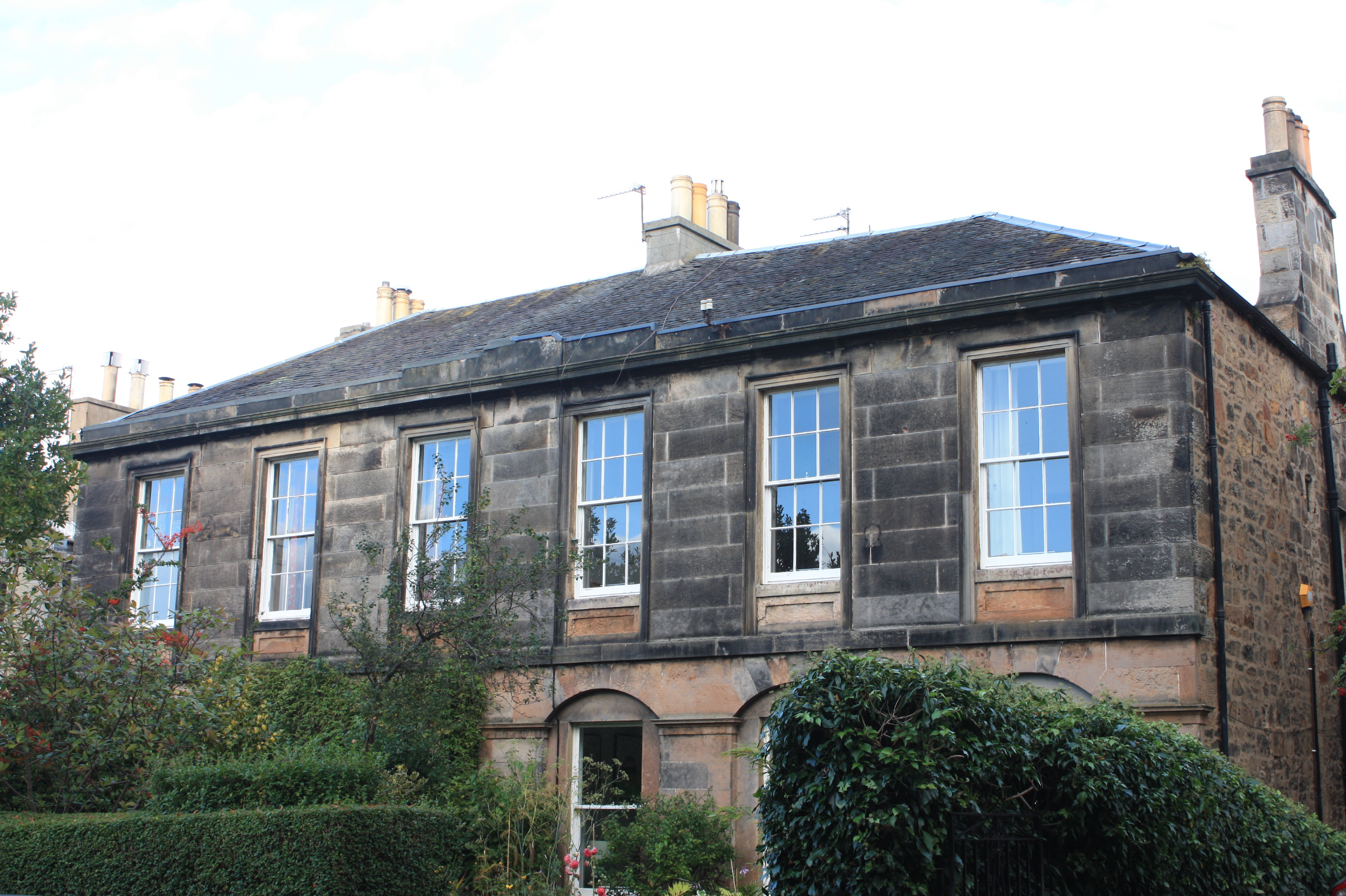 3 and 4 Laverockbank Road, Edinburgh